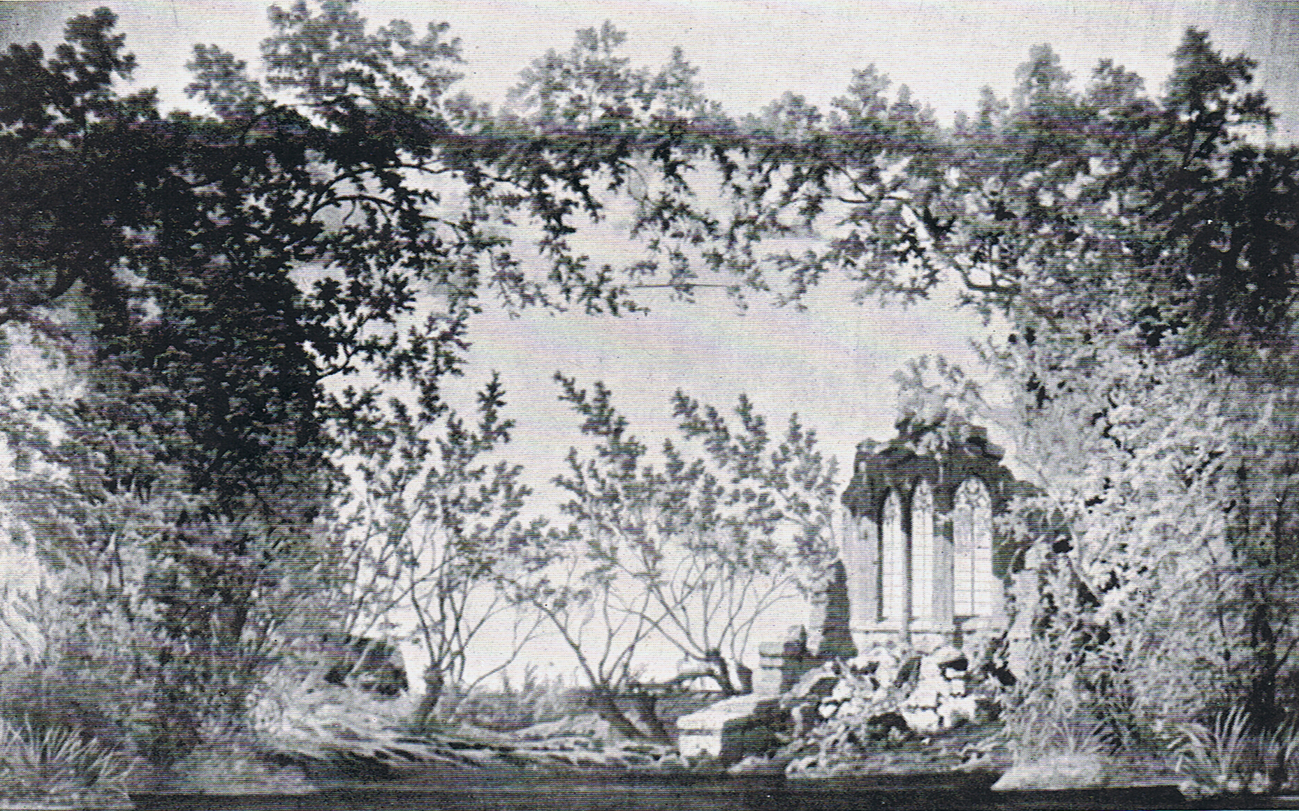 Set design by Mikhail Bocharov and Henrich Levogt for the 1895 production of the ballet The Swan Lake at the Mariinsky Theater. Décor for the second act. Digitalised version from the image as it appeared in Ballet Design: Past and Present (1946) by C.W. Beaumont.